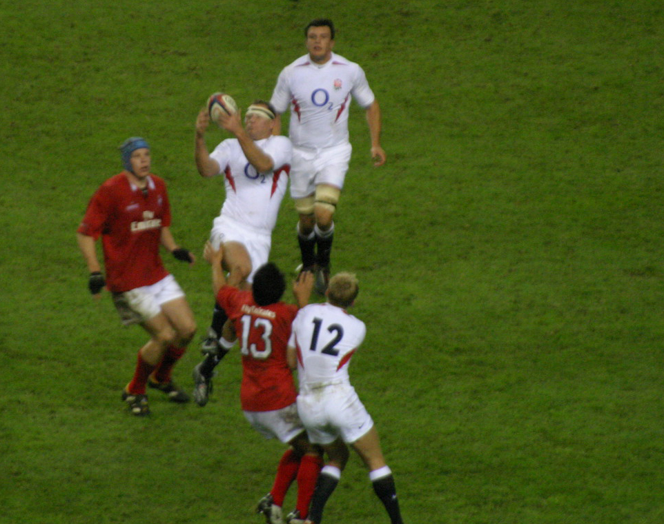 Richard Hill